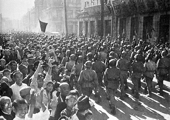 Soviet troops enter the liberated Harbin. August 21, 1945.